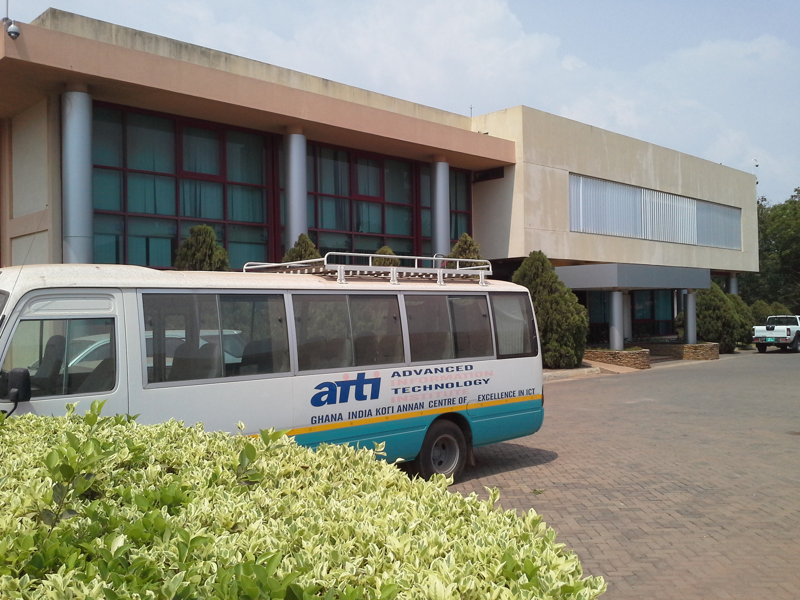 This the main premise of AITI